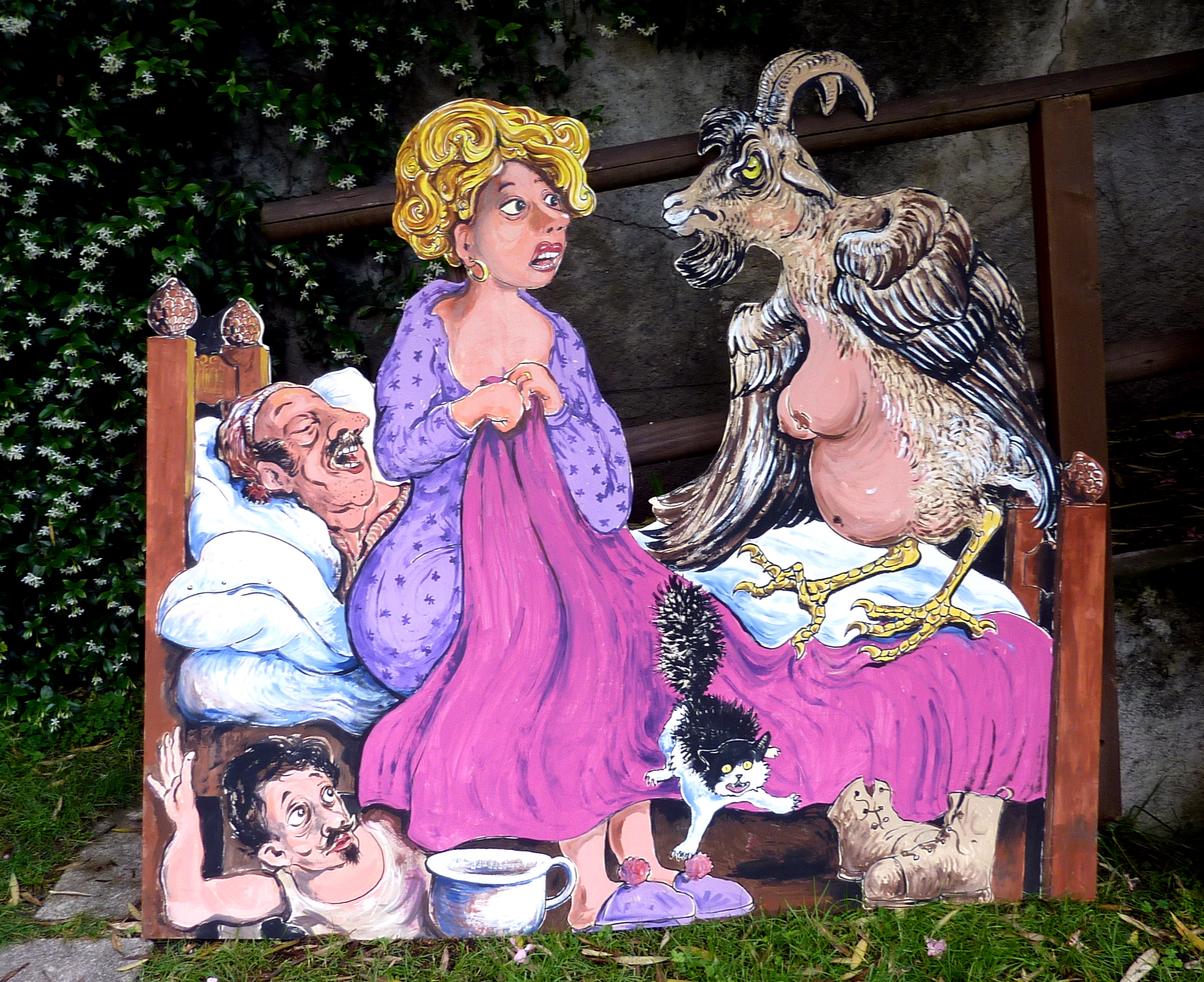 Representations of scary stories of Esino Lario by Paolo Boncompagni. Series of images-sculptures created around folk stories of Esino Lario.